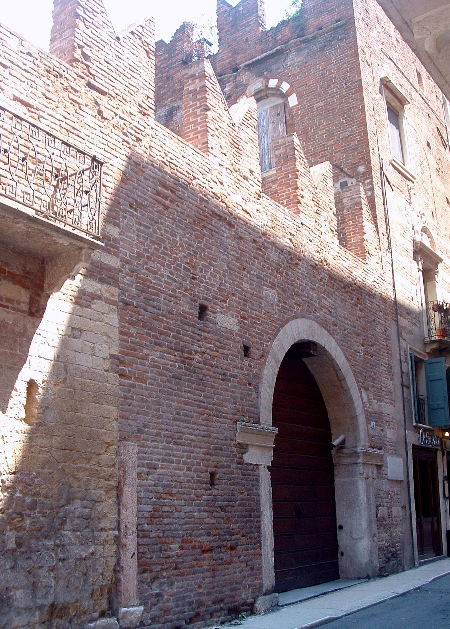 So called Casa di Romeo (Verona). In 14-15th century belonged to family Nogarola